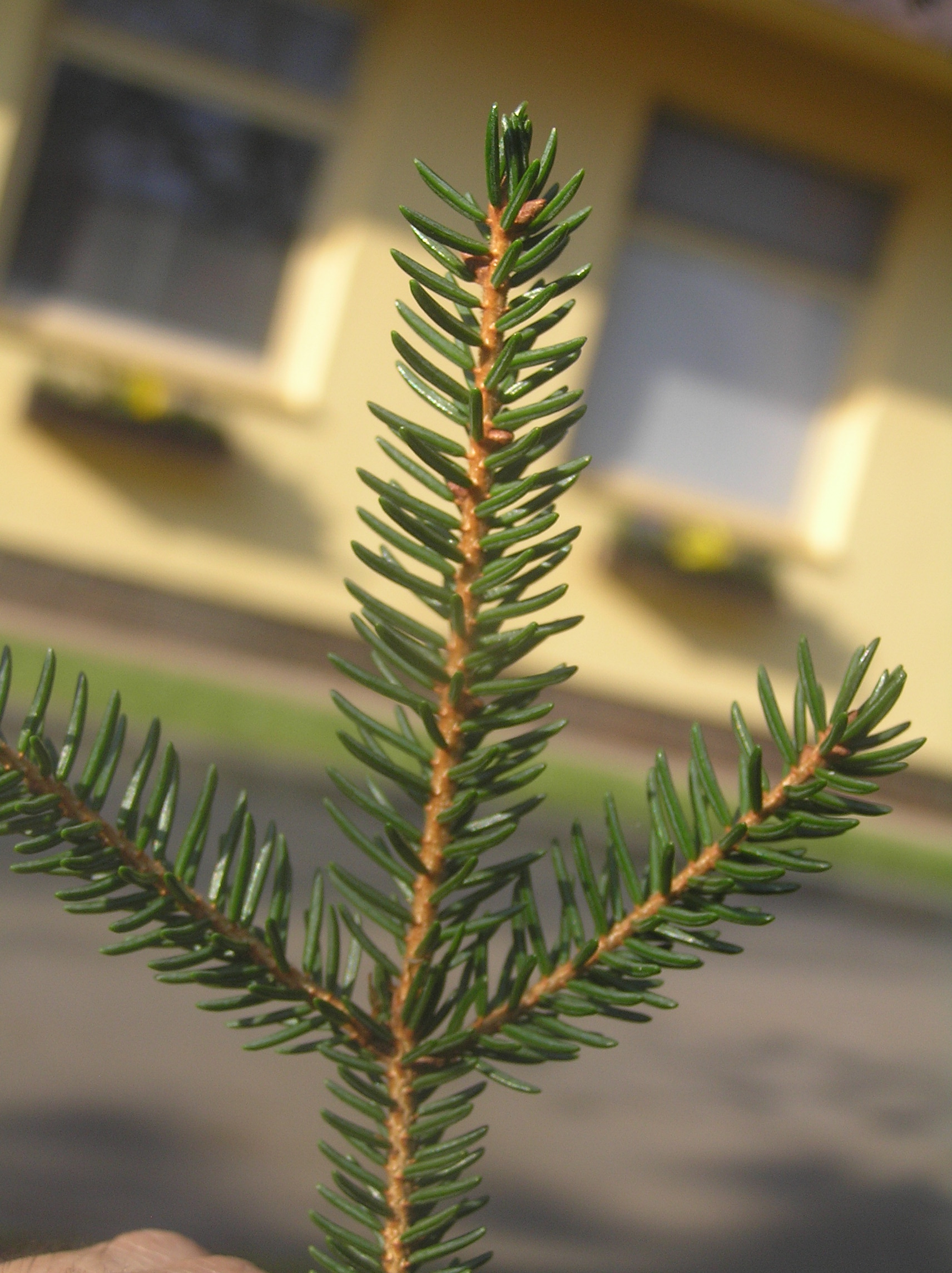 Picea orientalis, cultivated in the Czech Republic, arboretum Žampach